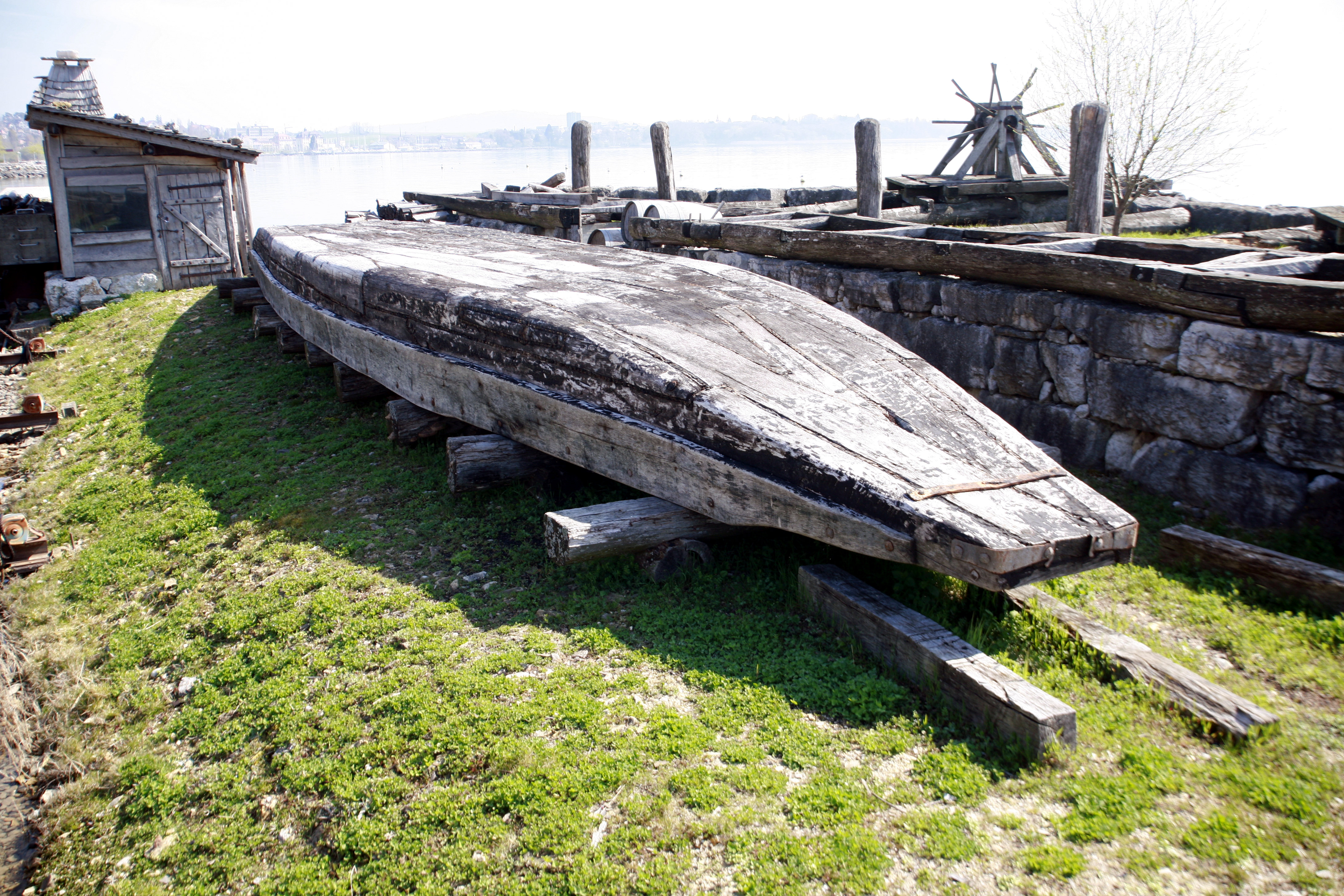 Reconstruction of a Gallo-Roman ship at the Laténium, Switzerland. The remains of the original ship are on display inside the museum. The ship was built in 182 BCE and was used to ferry building stones from Jura to Avenches